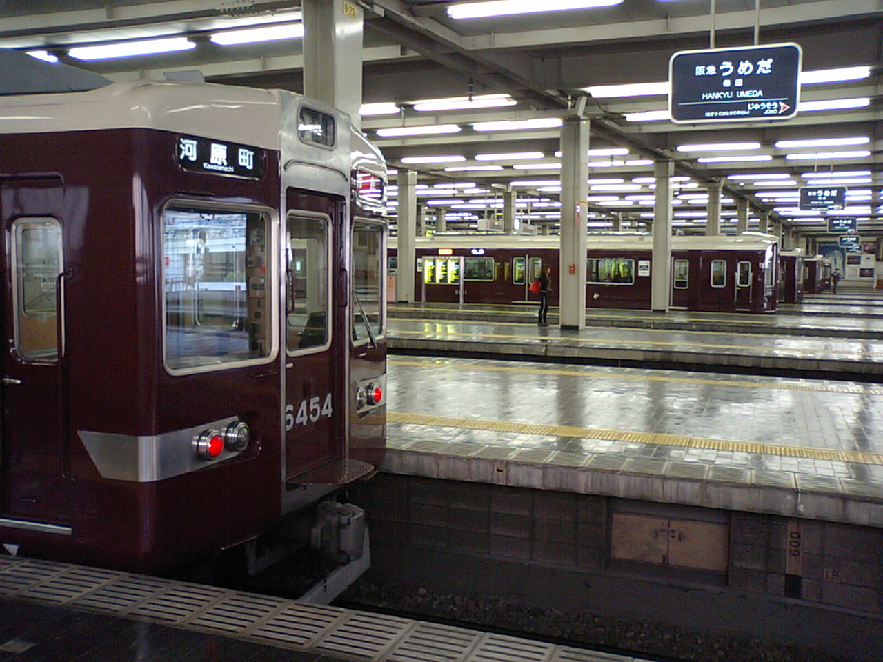 Platform of Hankyu railway Umeda station.